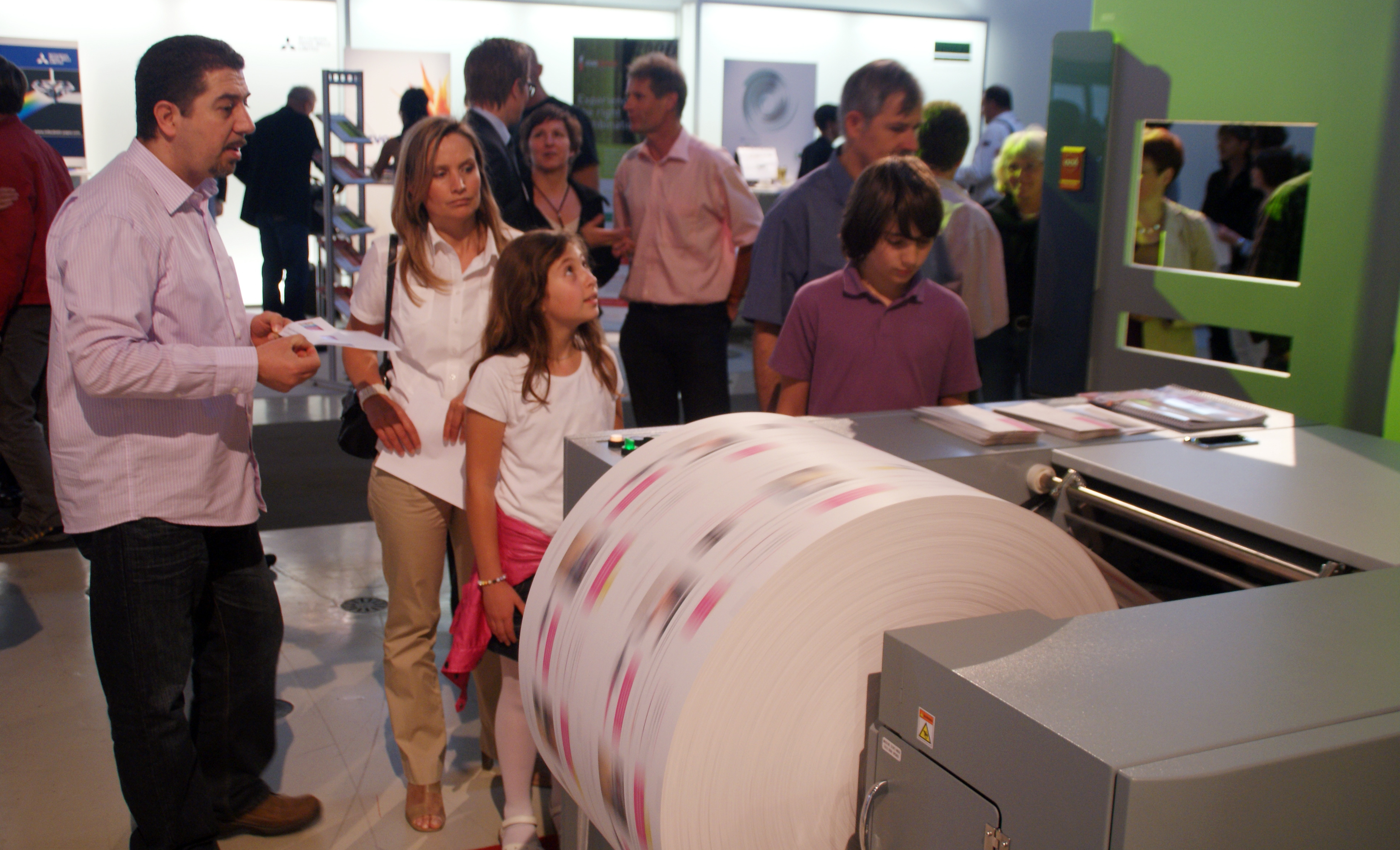 The Océ Family Day in Poing arouses interest in the profession of digital printer.